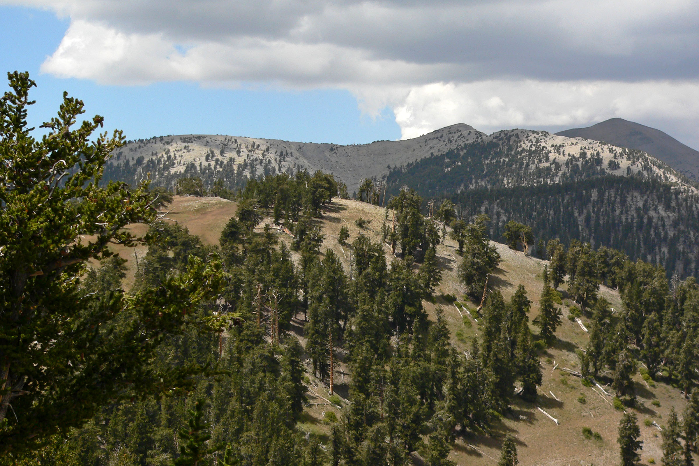 Mount Charleston-Griffith Peak ridge (South Loop trail), Charleston summit in distance on right, Spring Mountains, southern Nevada